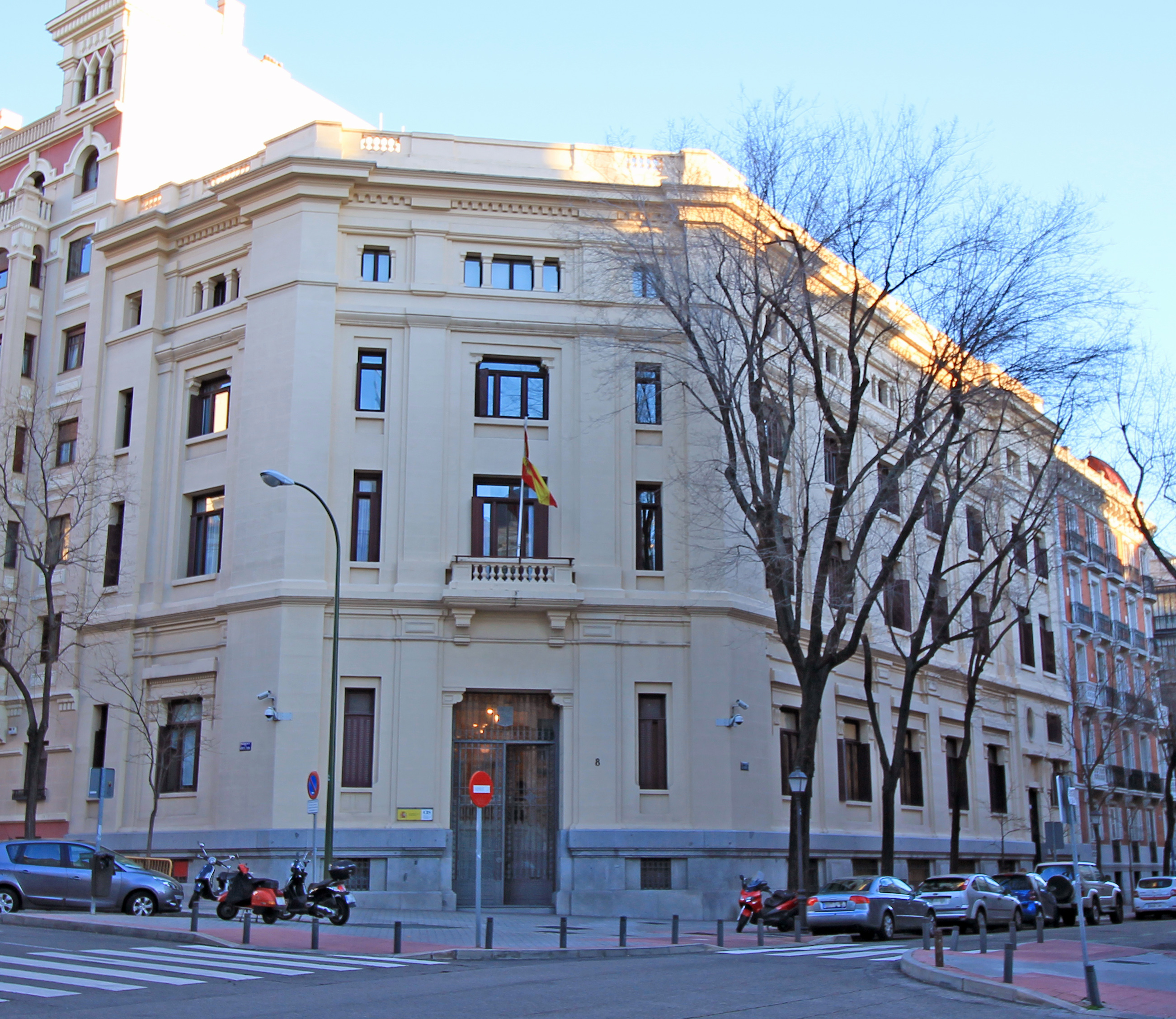 Headquarters of Spain's Centro de Investigaciones Sociológicas (CIS), at 8th Calle de Montalbán (street) in Retiro district in Madrid. Building was designed in 1922 by architect Antonio Ferreras Posadillo and built from 1924 to 1927.